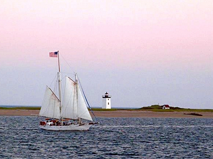 Long Point Light Station, as seen from the direction of downtown Provincetown.